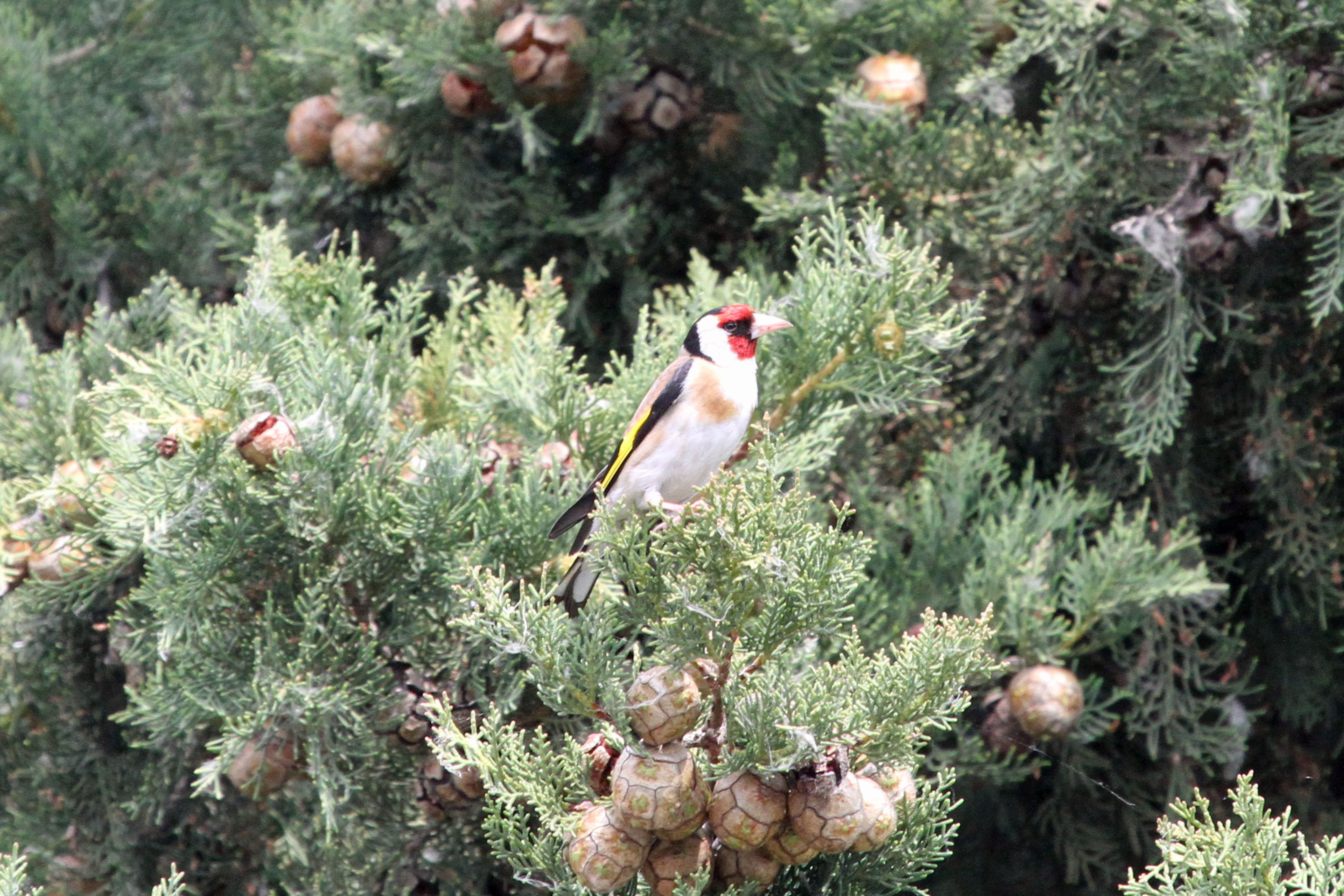 European Goldfinch